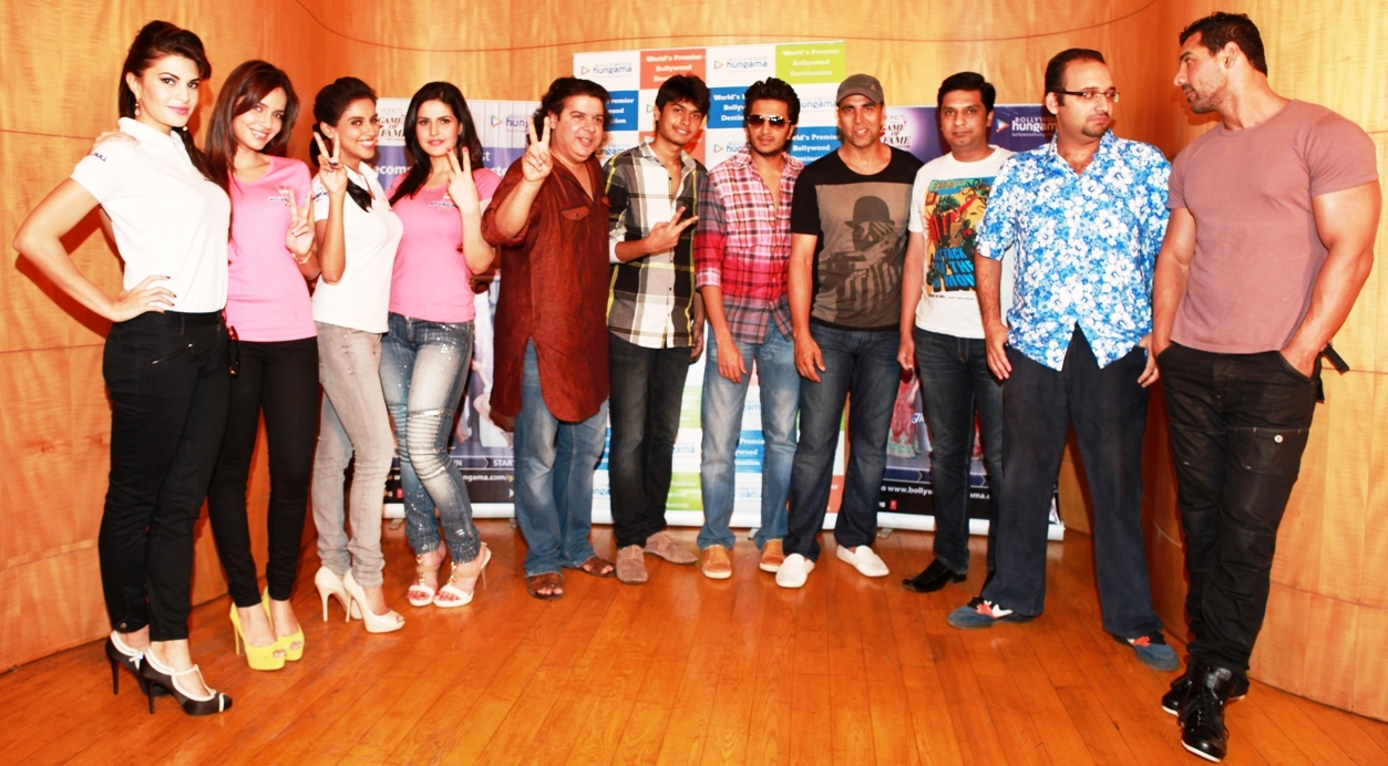 With team of Housefull 2 at J W Marriott